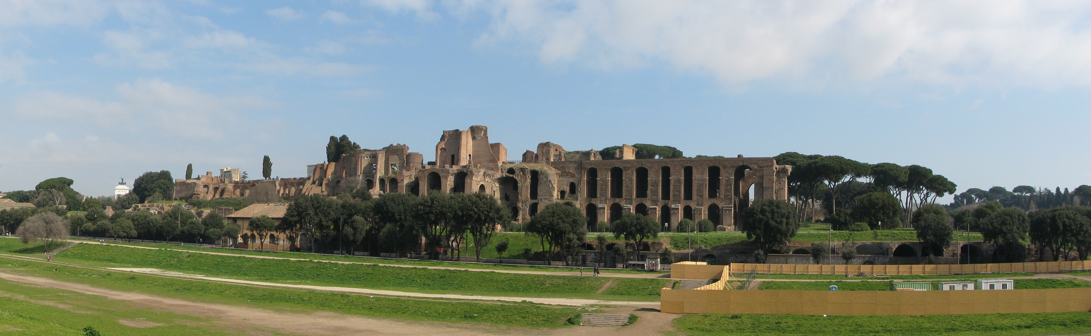 Panorama of the Palatine hill as seen from the circus maximus in rome